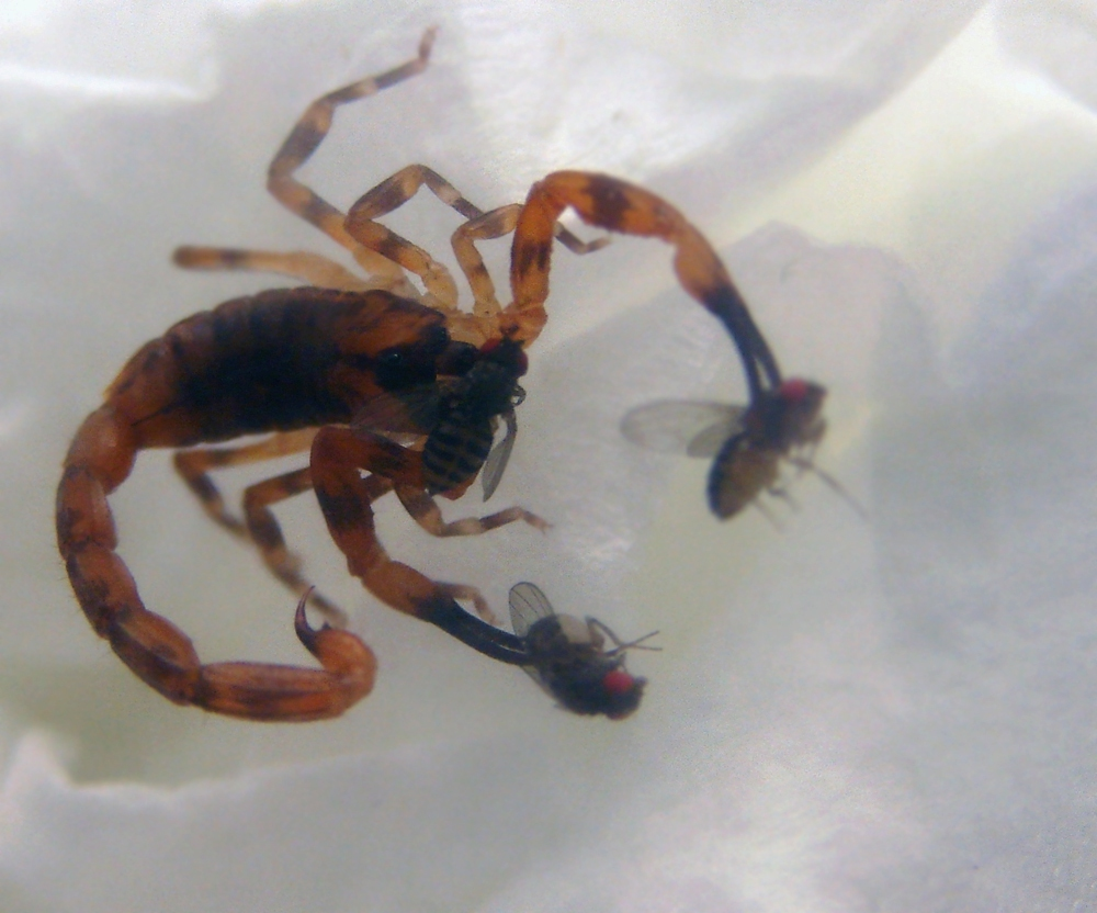 A tripodless photo taken through plastic. I was just anxious to get some pics of the new scorps and had no tripod and little time. This is one of my new Babycurus jacksoni scorplings that arrived last week, about to sting the most recent catch to his three-course fruit fly meal. He will change color as he gets older.